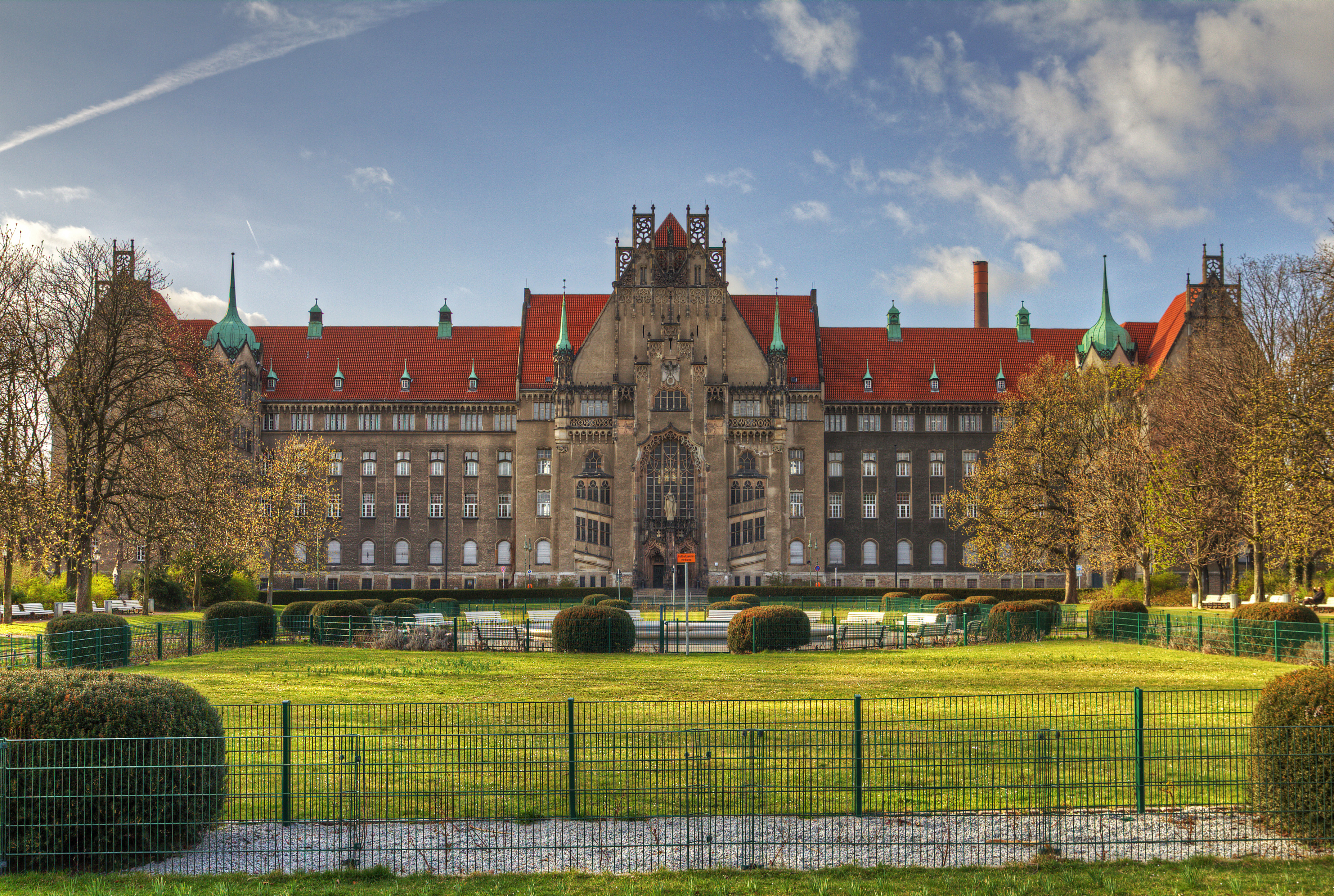 Berlin-Gesundbrunnen, courthouse at Brunnenplatz